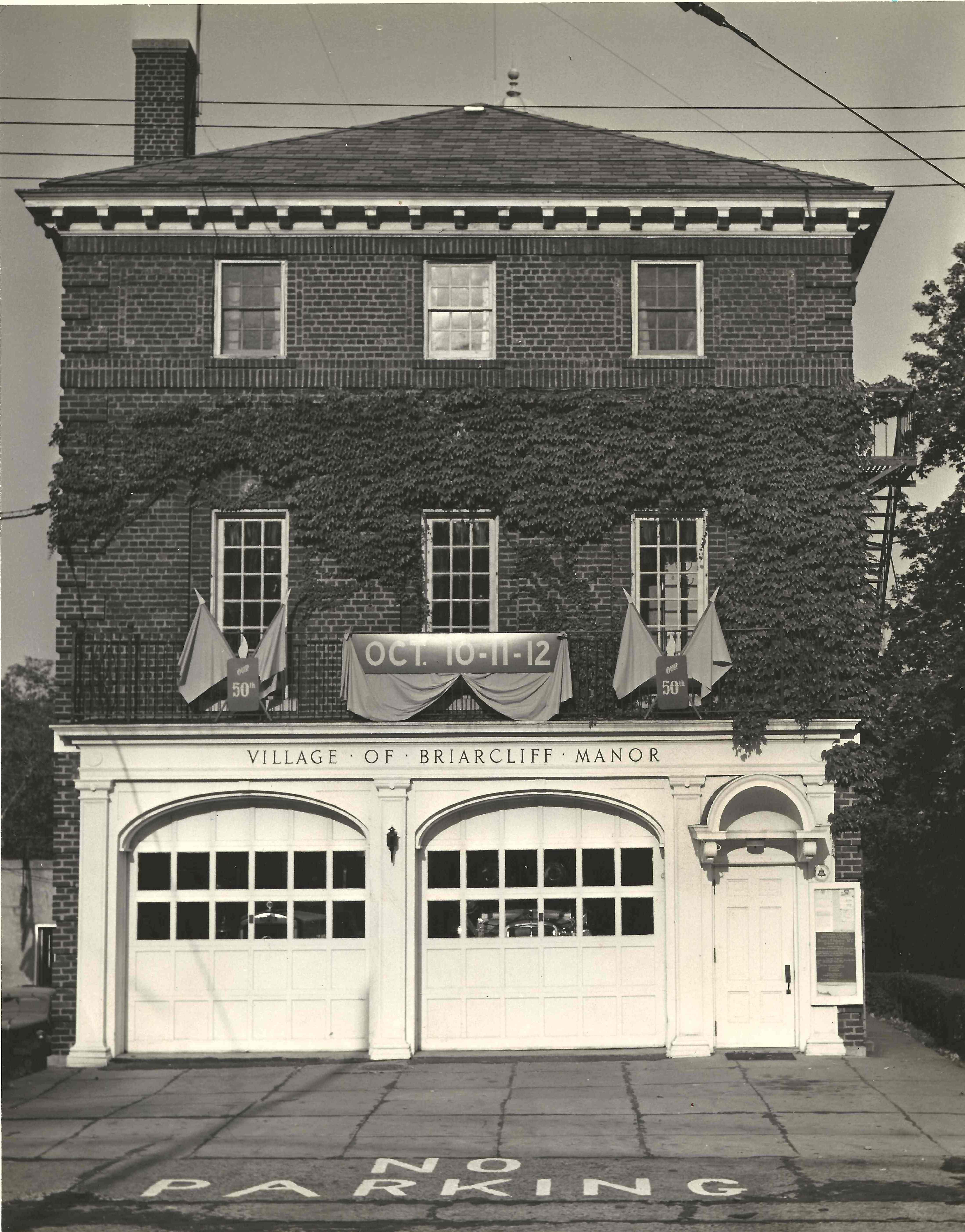 This is an image of Briarcliff Manor's Municipal Building decorated for the village's 50th anniversary.